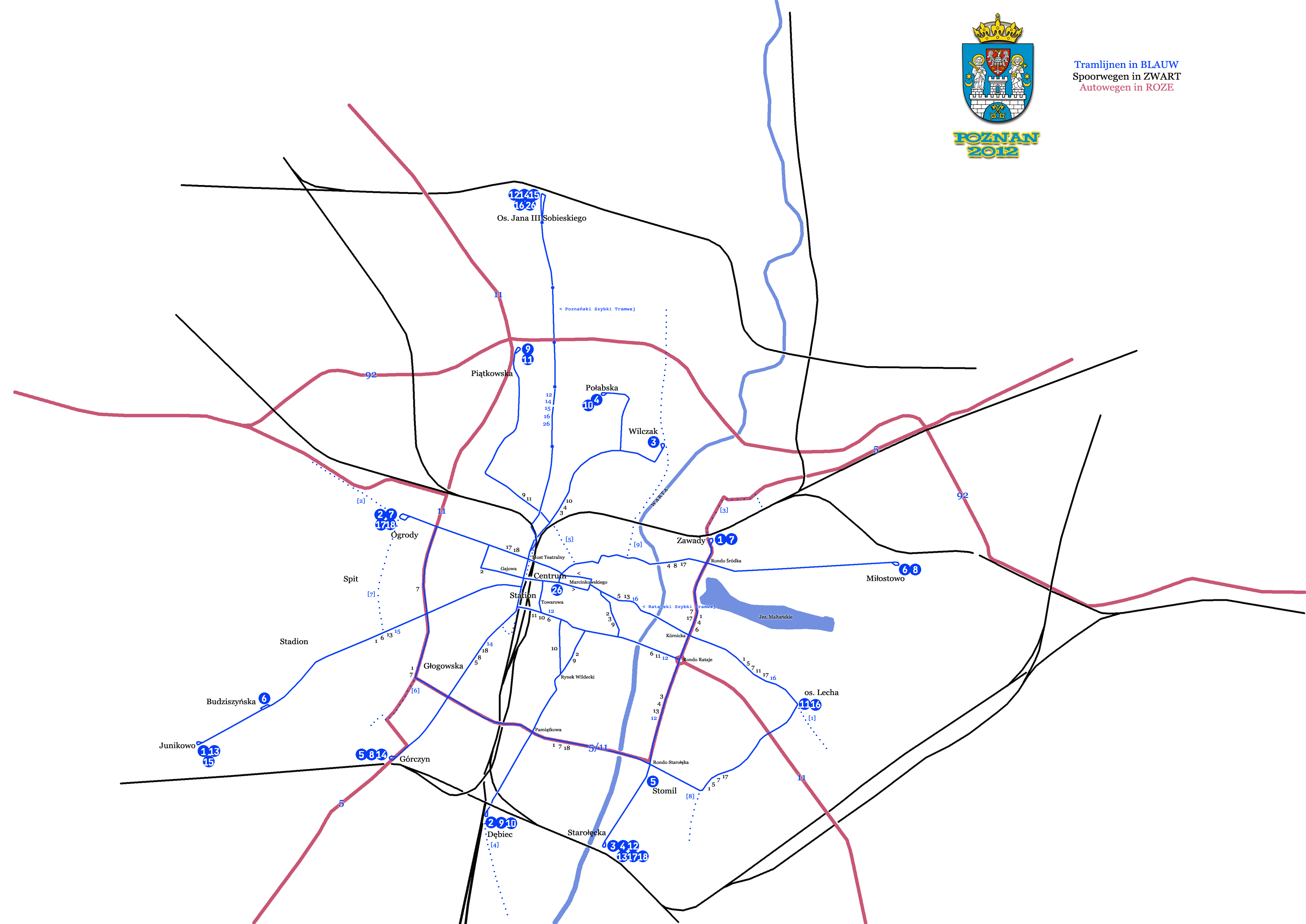 Map tram lines in Poznań, Poland.